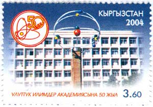 Stamp of Kyrgyzstan